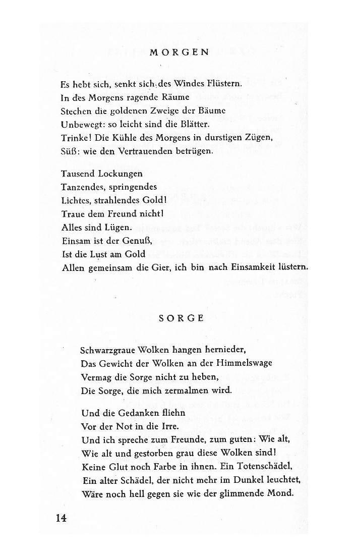 This is a scan of the historical document